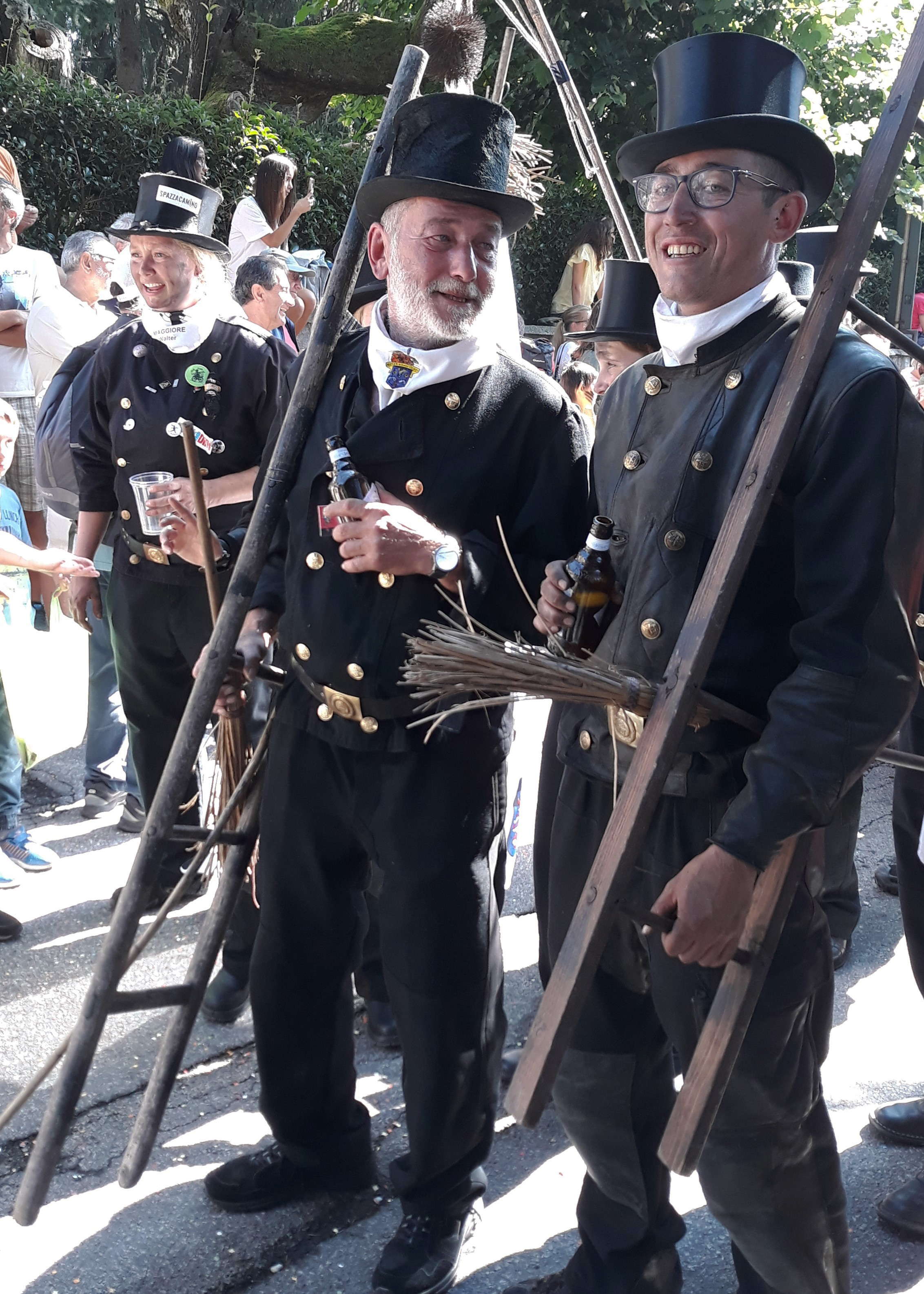 Various chimney sweepers with their old fashioned clothes and tools at the 38th international chimney sweepers gathering in Santa Maria Maggiore, in region Piedmont in Italy. Picture taken on the 1st of september in 2019. 2019-09-01